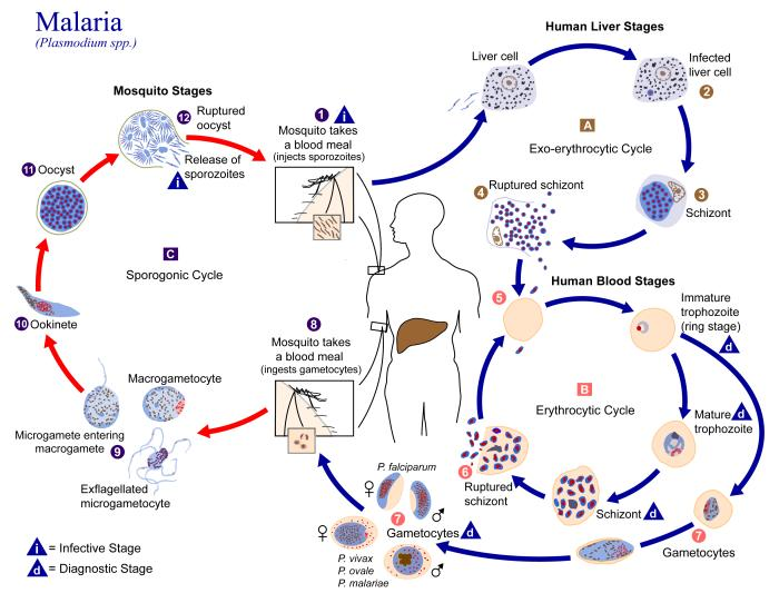 This is an illustration of the life cycle of the parasites of the genus Plasmodium that are causal agents of Malaria. For a complete description of the life cycle of parasites which cause Malaria, select the link below the image or paste the following address in your address bar